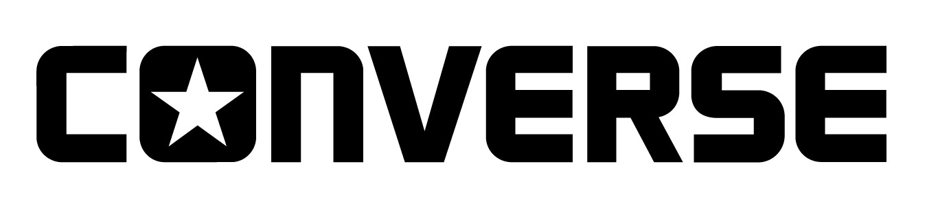 logo converse